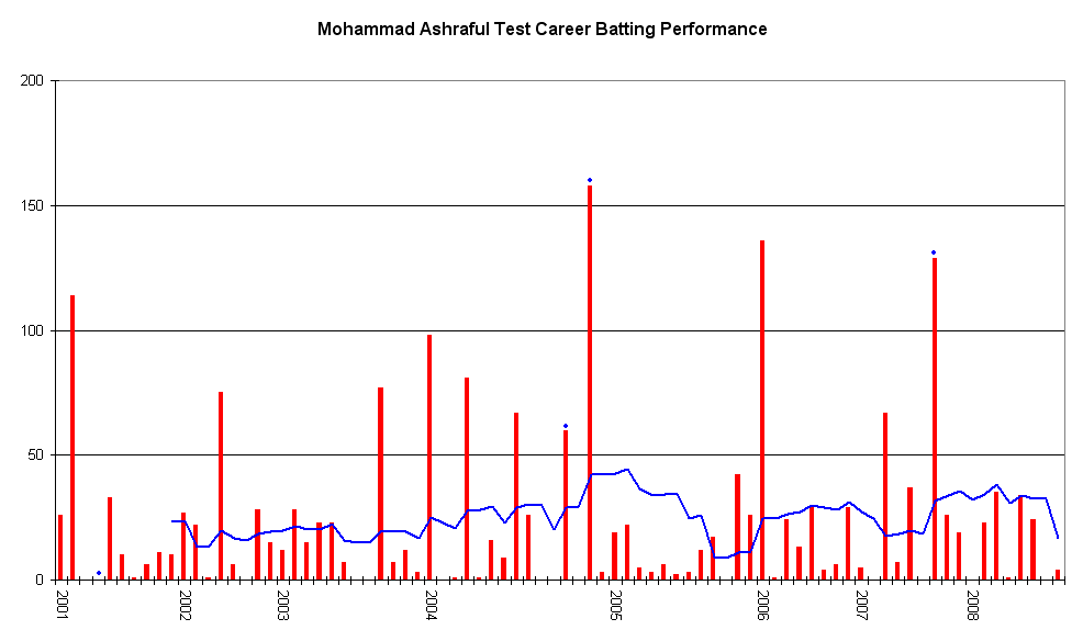 This graph details the Test Match performance of Mohammad Ashraful. It was created by Raven4x4x. The red bars indicate the player's test match innings, while the blue line shows the average of the ten most recent innings at that point. Note that this average cannot be calculated for the first nine innings. The blue dots indicate innings in which Ashraful finished not-out. This graph was generated with Microsoft Excel 2002, using data from Cricinfo [1] and Howstat [2]. The information in this graph is current as of 30 March 2008.